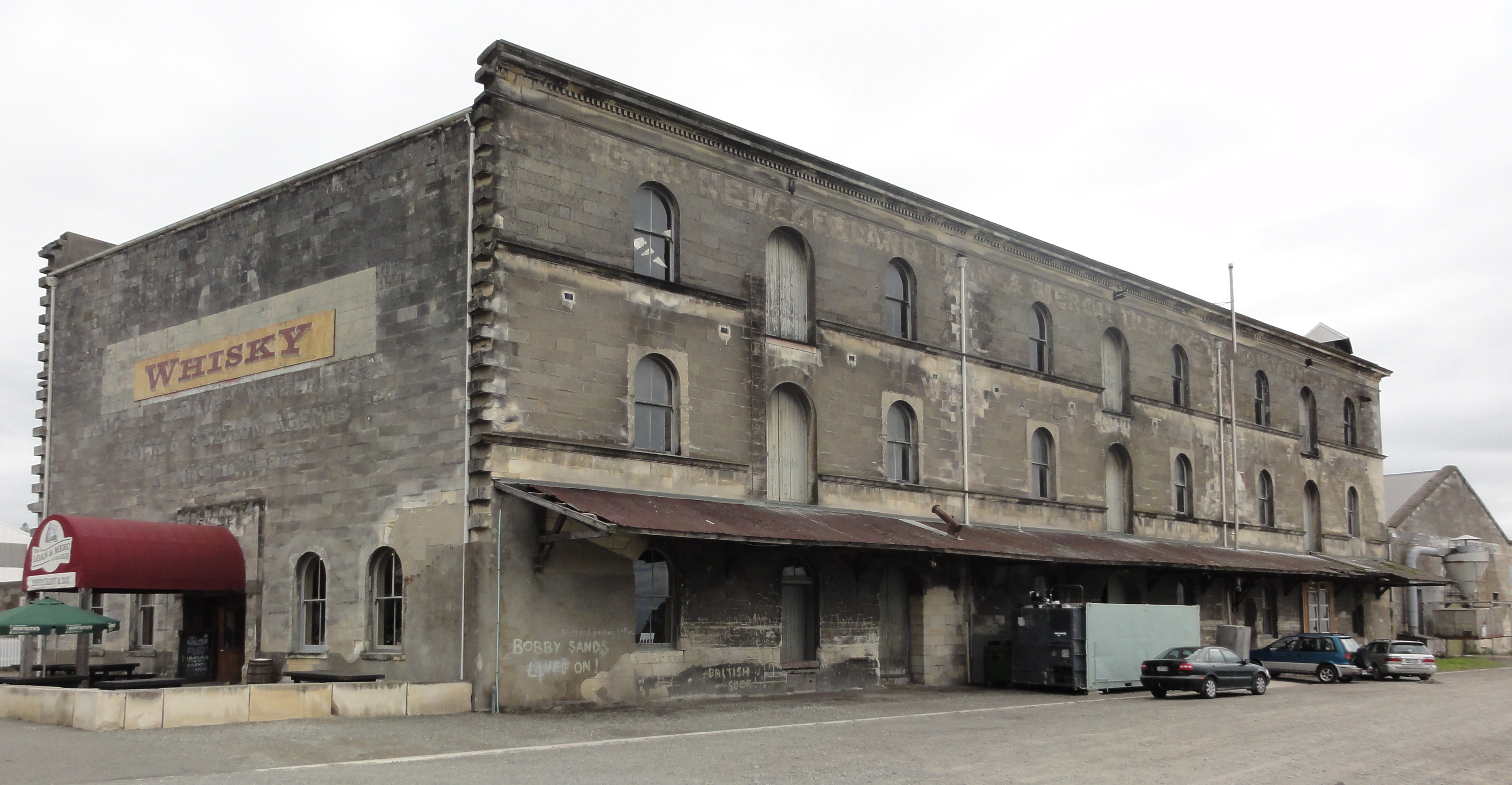 New Zealand Loan and Mercantile Company Warehouse (Former) Corner 14 Harbour Street and Wansbeck Street, Oamaru, Otago New Zealand As seen from former harbour area